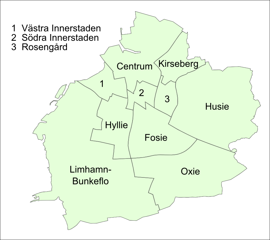 Malmö boroughs with boundaries as of 2009.